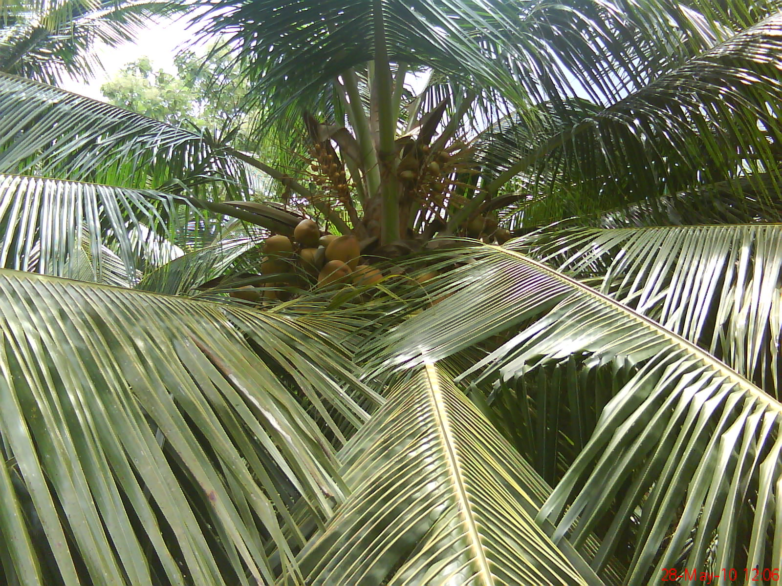 mangavilai surrounding